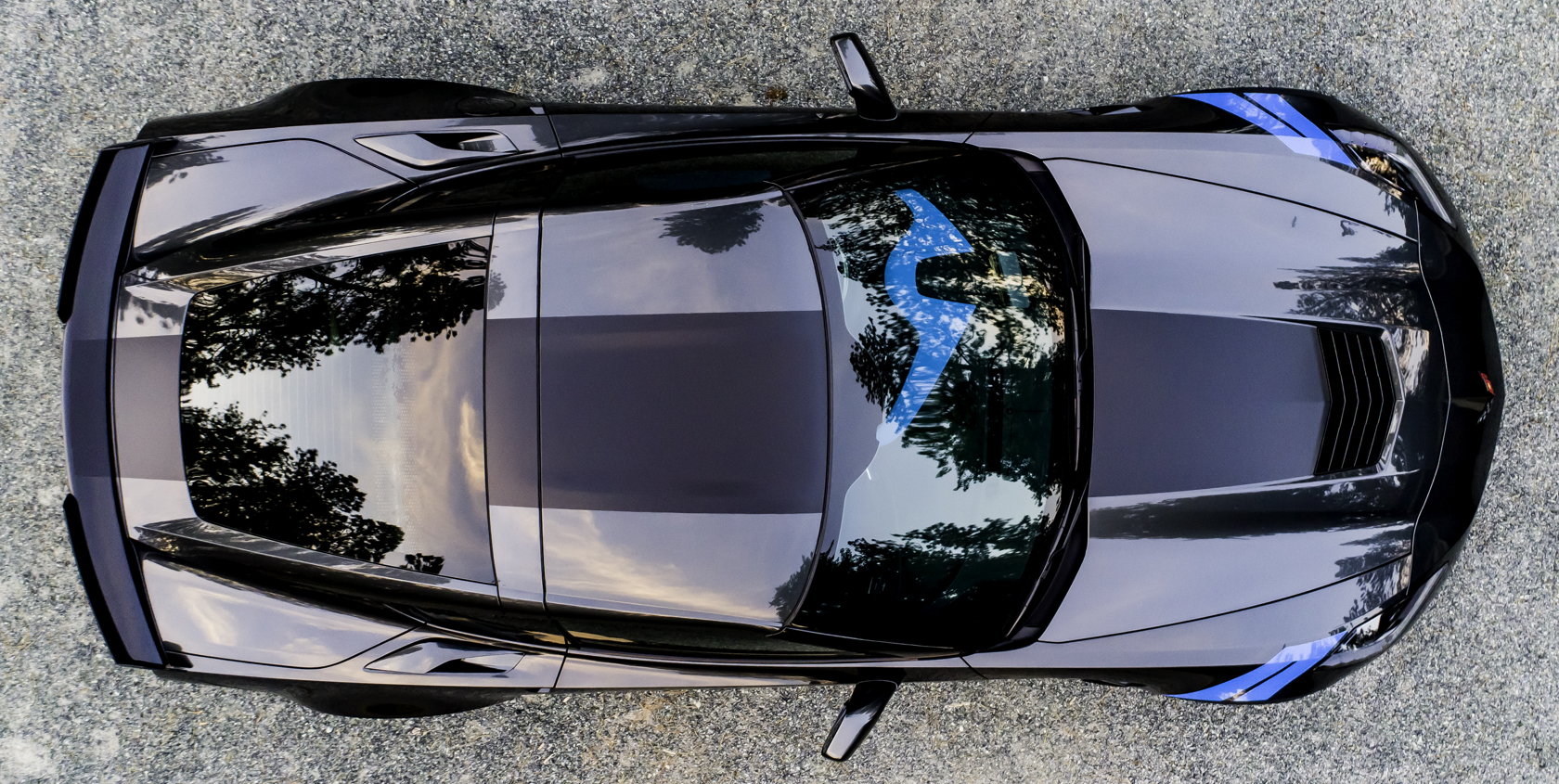 2017 Corvette Collector Edition Number 43 Aerial Top. Shot with a drone